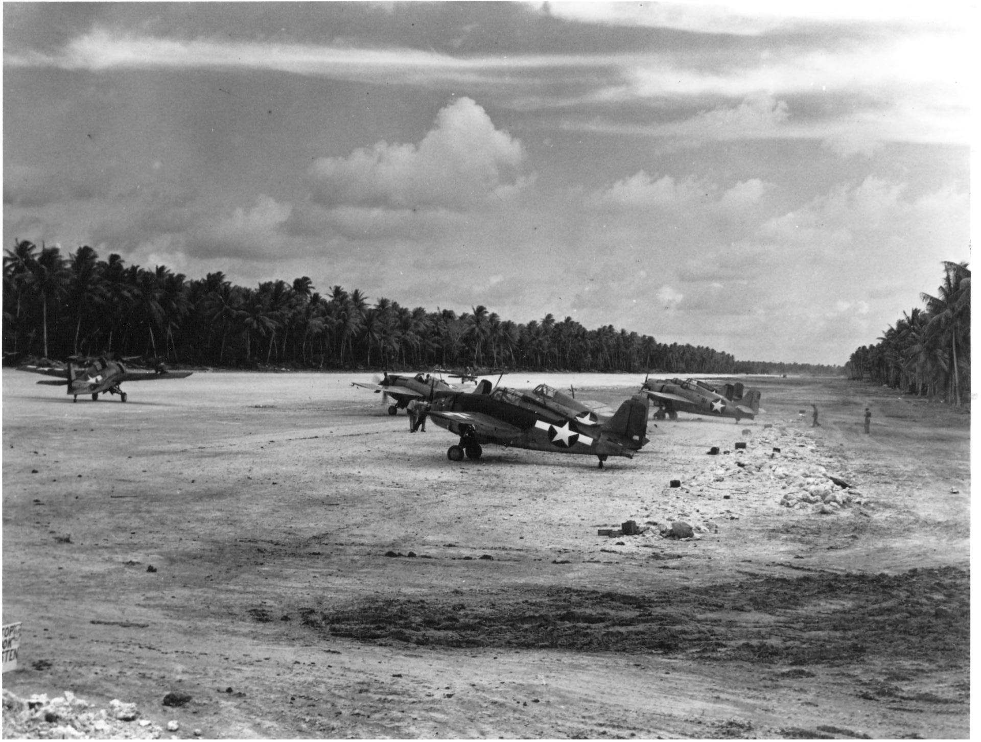 U.S. Marine Corps Grumman F4F-4 Wildcats of Marine Fighting Squadron 441 (VMF-441) on Nanumea Airfield, Ellice Islands, 23 October 1943.